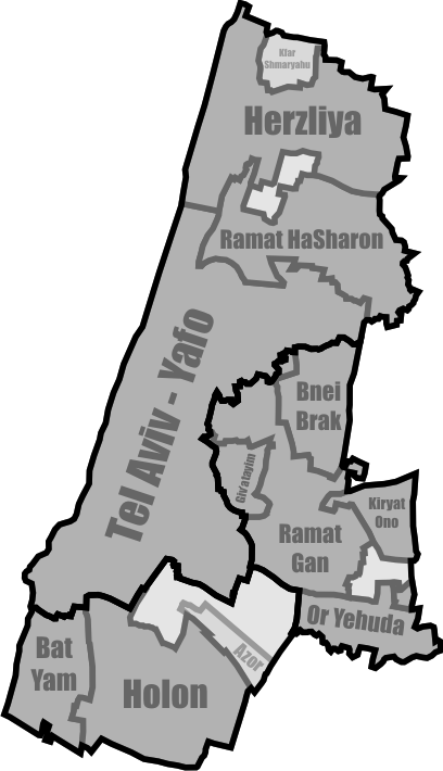 Tel Aviv District and its municipalities, updates for post-2008 municipality merger.